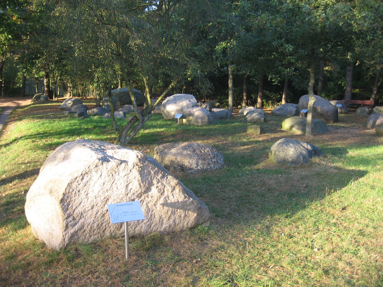 Eiszeit-Findlingspark-Todtglüsingen